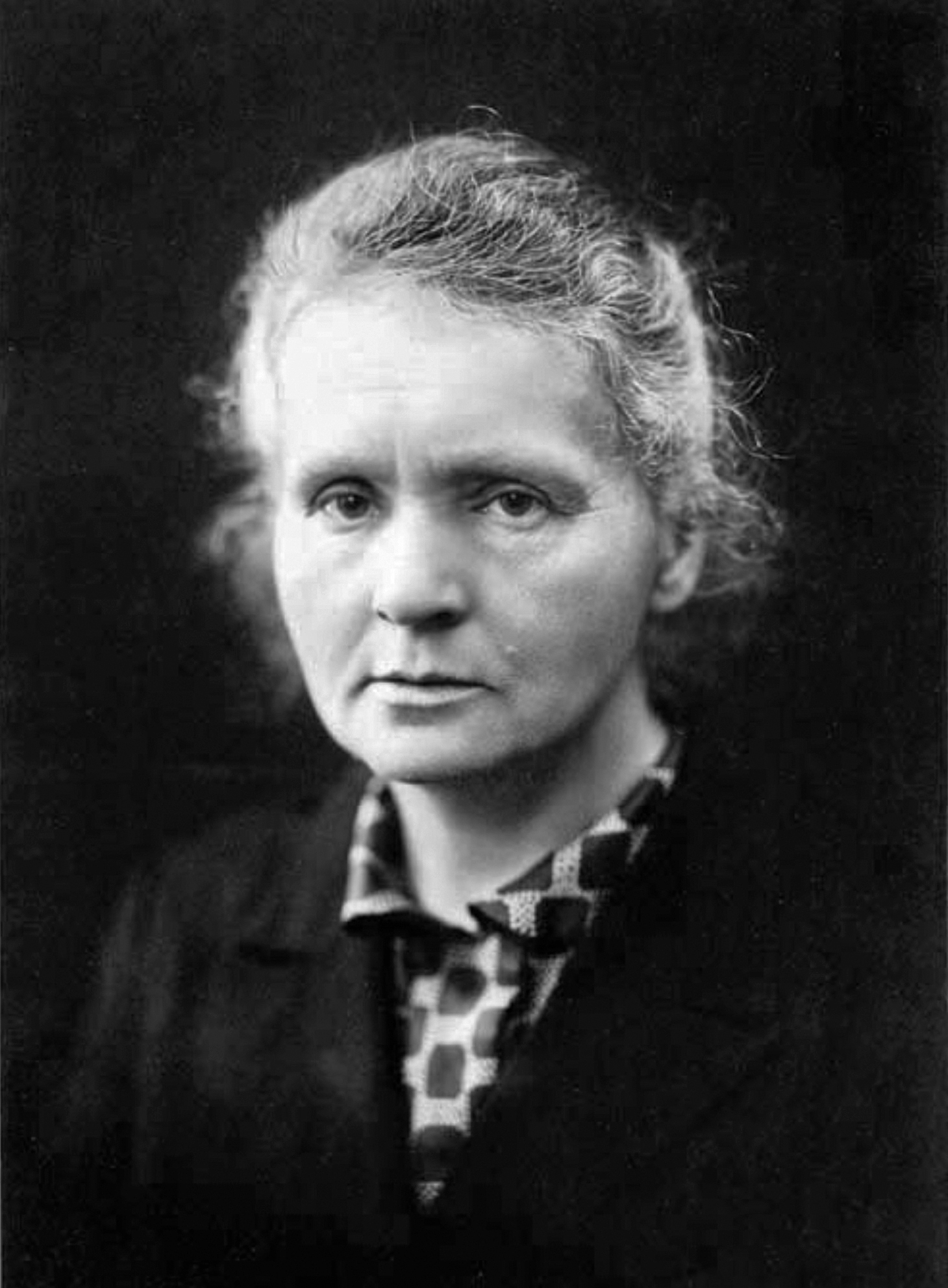 Depicted person: Marie Curie